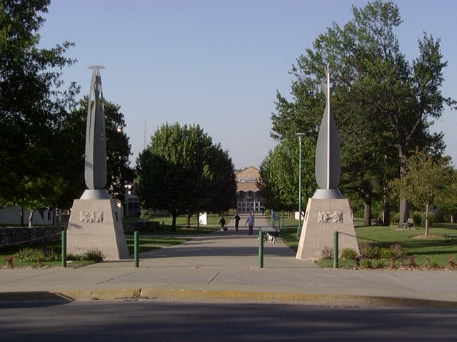 main campus of UMKC